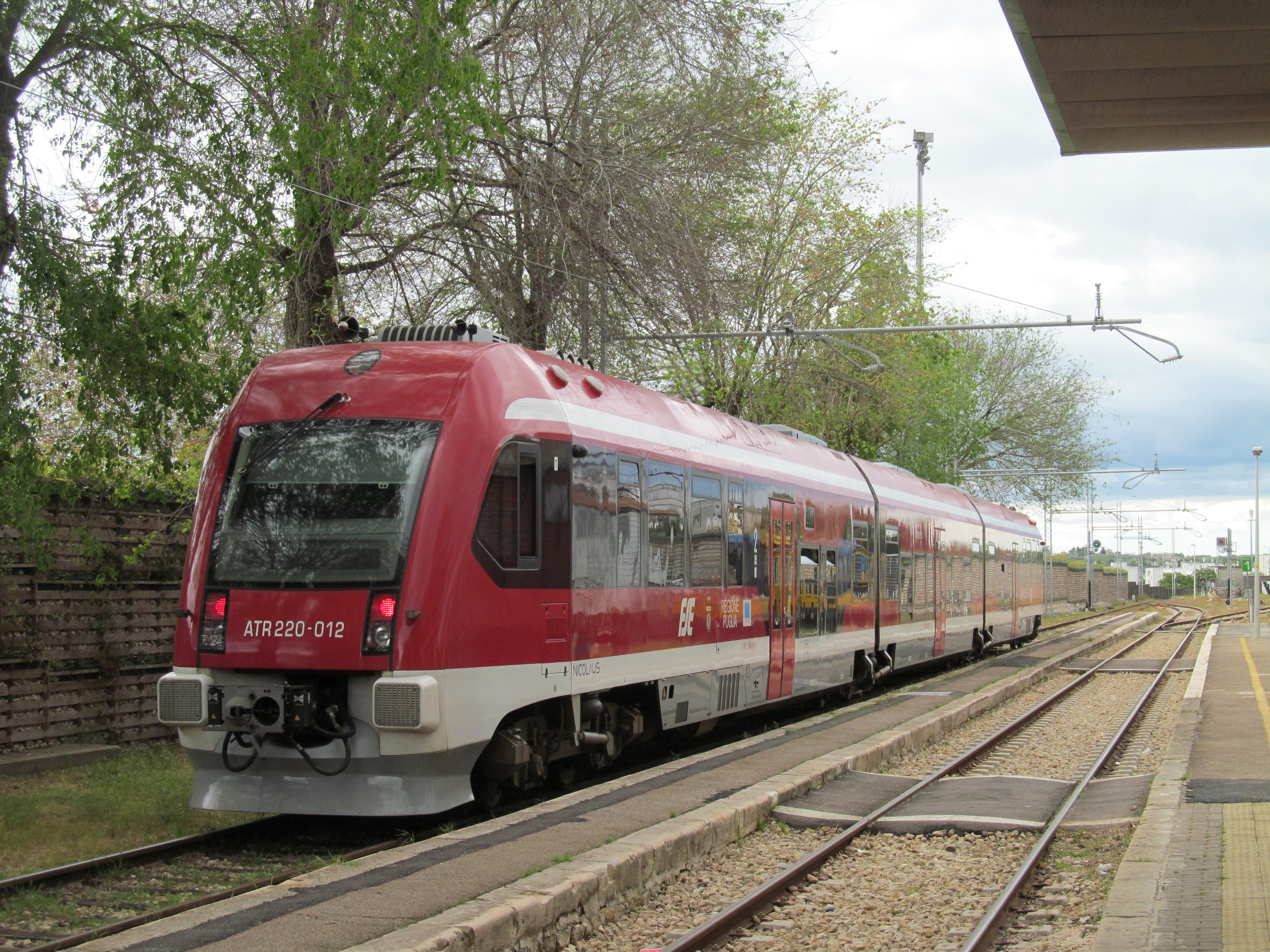 An FSE train leaves Alberobello for Martina Franca, Italy.